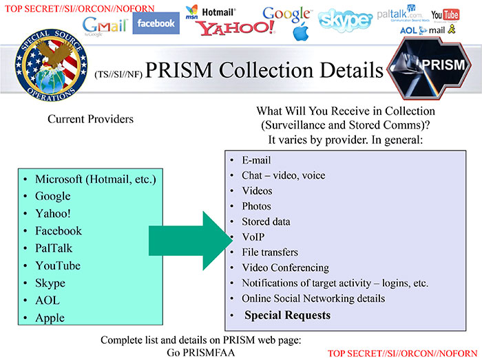 Slide showing companies participating in the PRISM program and the types of data they provide.